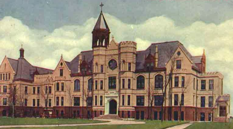 Postcard showing the Villa de Chantal, a former Catholic girl's school in Rock Island, Illinois.